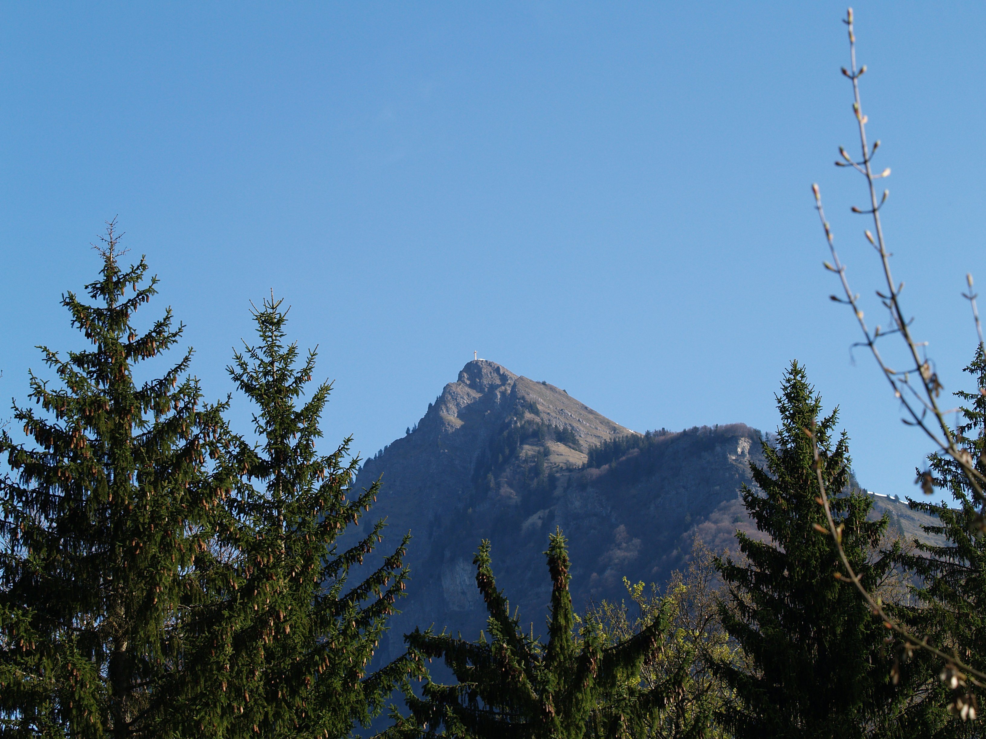 The Pointe de Marcelly (1999m), part of the Chablais massif in the French Prealps, viewed from the municipal campsite at Taninges.